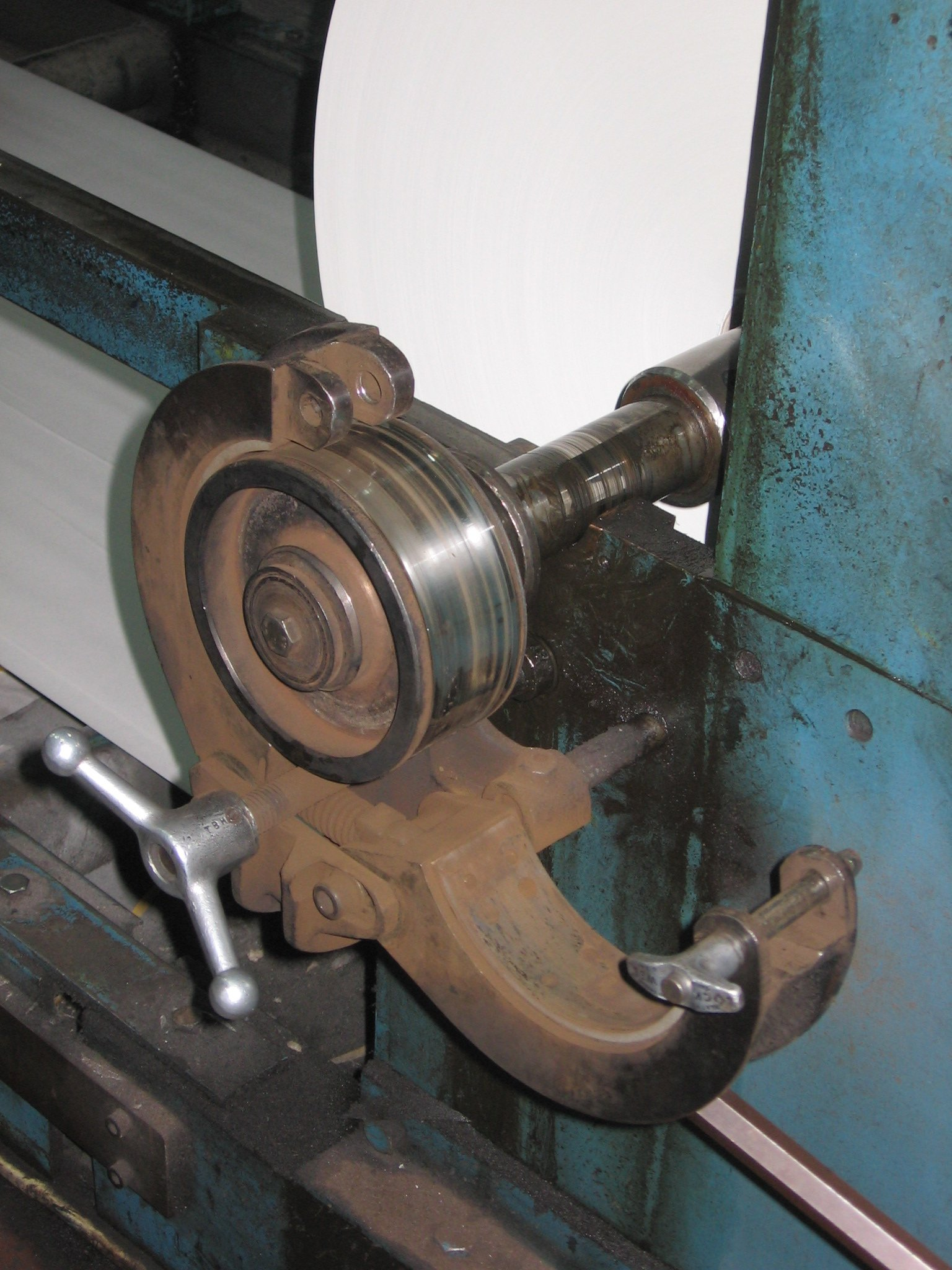 Industrial jaw brake (right jaw opened) in printing house, on reelstand of paper web